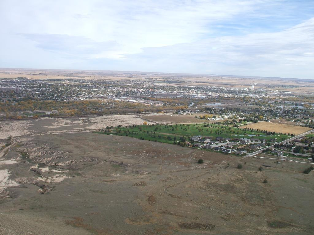 Scottsbluff as seen from atop the bluff.